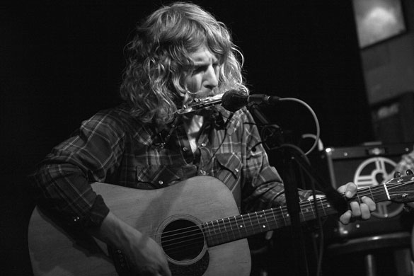 Mark Browning performing live with Ox in Assen, Netherlands